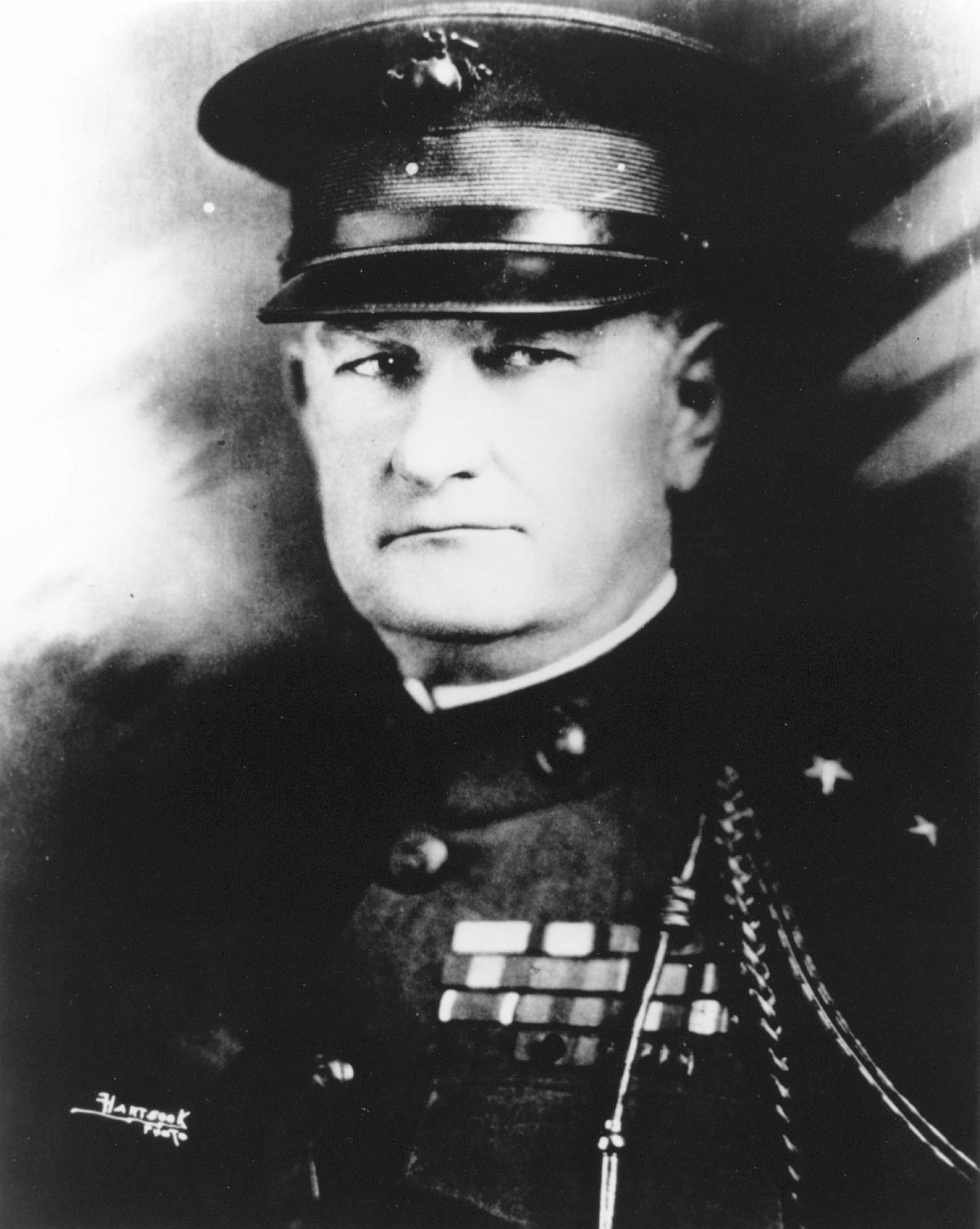 General Wendell Cushing Neville, USMC, Commandant of the Marine Corps